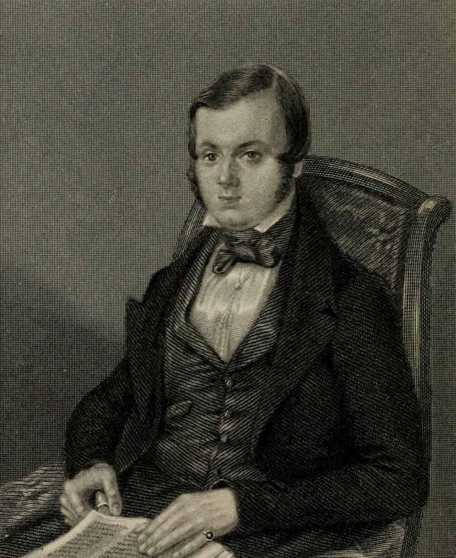 Henry Thomas Buckle at the age of 24